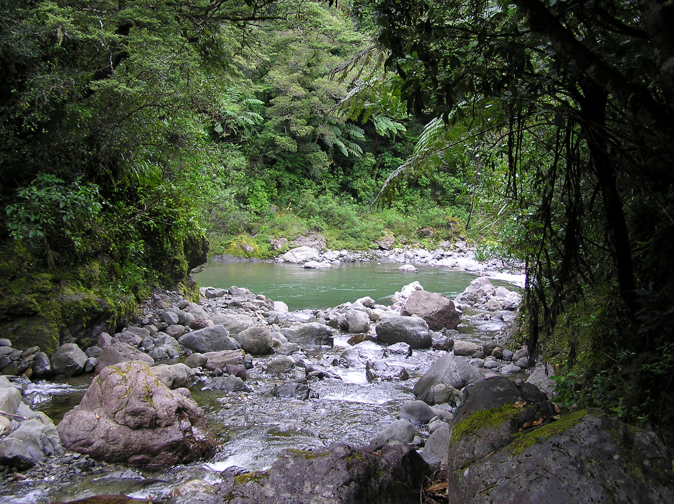 Clem Creek where it flows into Waiohine River, Tararua Range, New Zealand. Native forest.